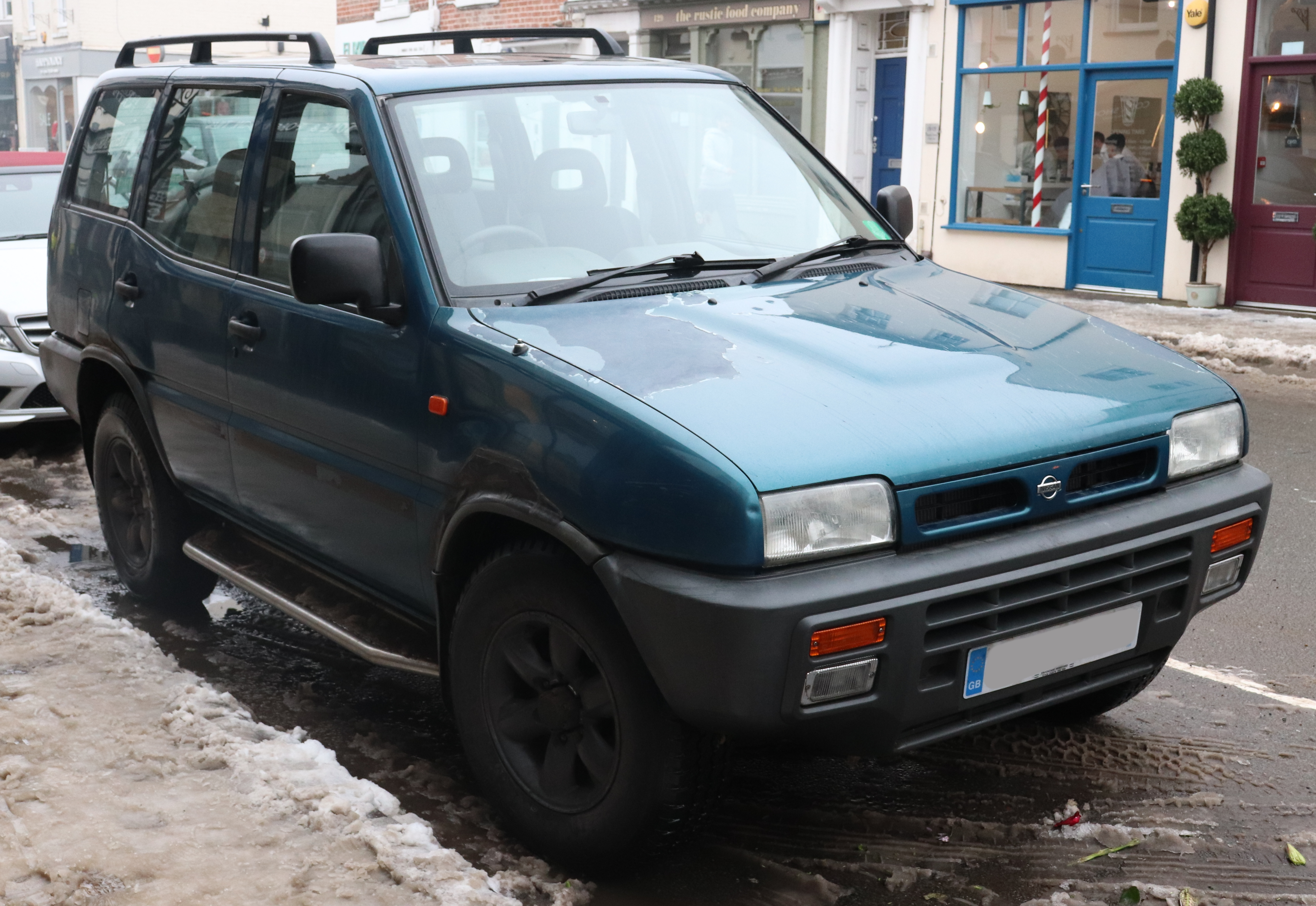 1994 Nissan Terrano II SLX 2.4 Front Taken in Leamington Spa